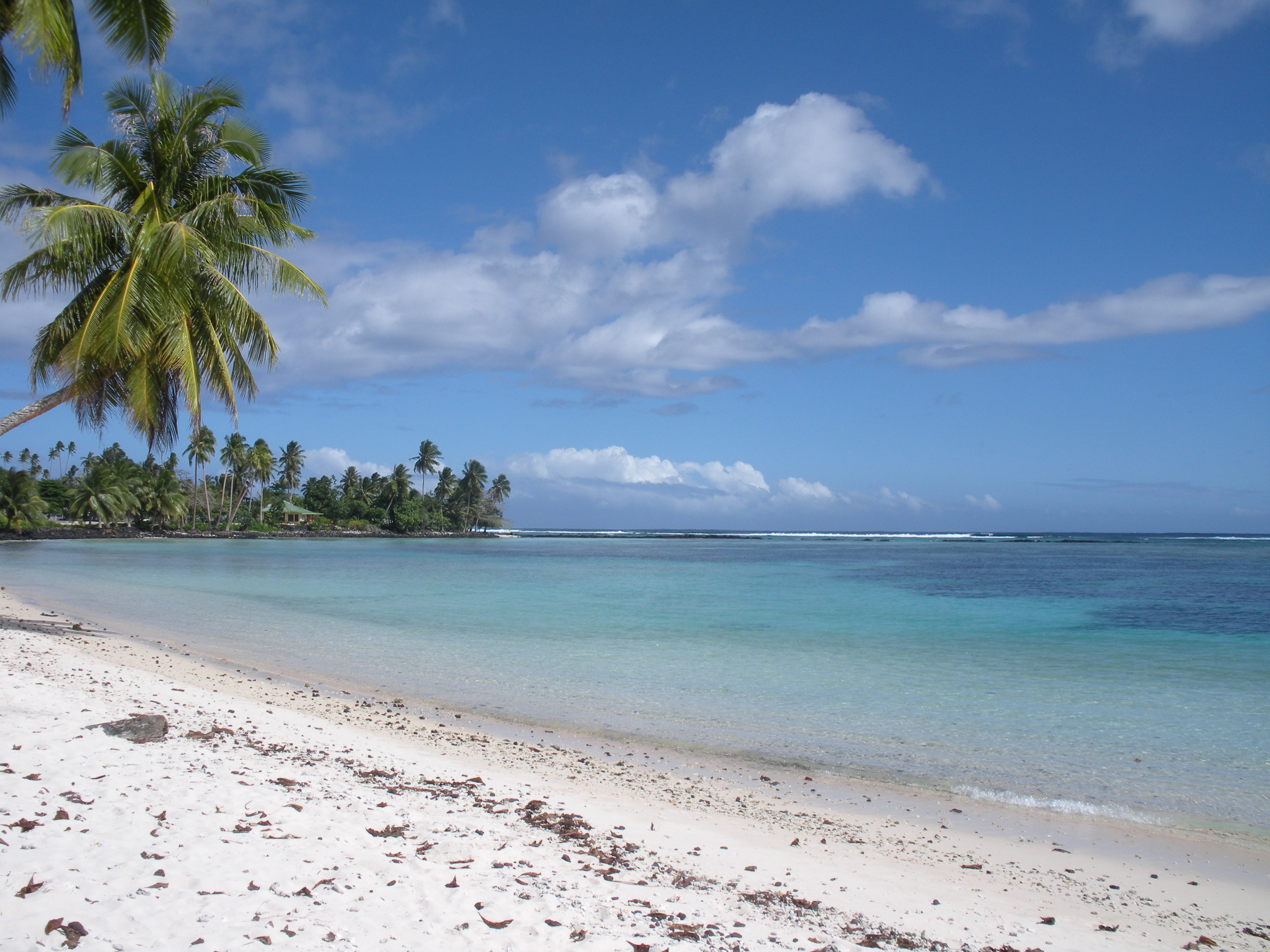 Beach view on Upolu Island, Samoa, 2009